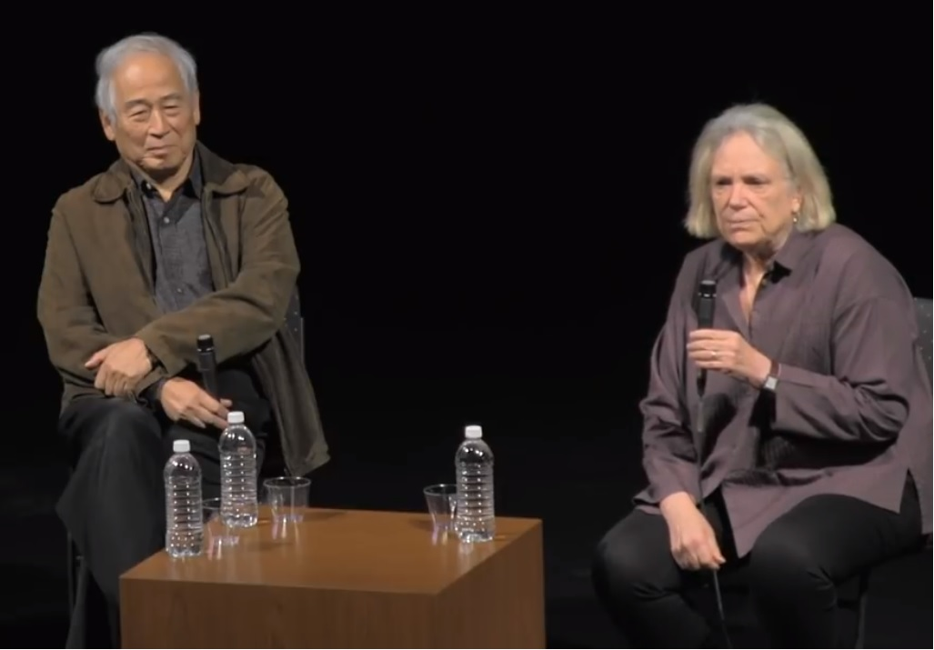 Conversation #4: Tadashi Suzuki in conversation with Anne Bogart Saturday, June 3: Tadashi Suzuki is the founder and director of the Suzuki Company of Toga (SCOT) based in Toga Village, located in the mountains of Toyama prefecture. He is the organizer of Japan’s first international theatre festival (Toga Festival), and the creator of the Suzuki Method of Actor Training. Anne Bogart is one of the three Co-Artistic Directors of SITI Company, which she founded with Japanese director Tadashi Suzuki in 1992. She is a Professor at Columbia University where she runs the Graduate Directing Program. Saratoga International Theater Institute, or SITI Company is an ensemble-based theater company whose three ongoing components are the creation of new work, the training of young theater artists, and a commitment to international collaboration. SITI was founded in 1992 by Anne Bogart and Tadashi Suzuki to redefine and revitalize contemporary theater in the United States through an emphasis on international cultural exchange and collaboration.